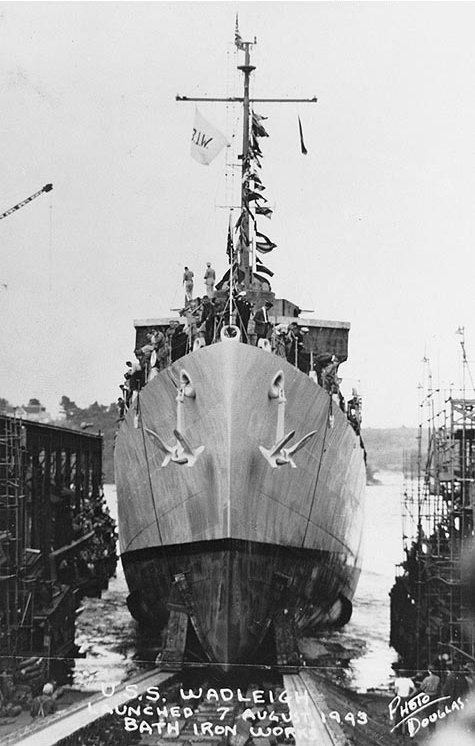 Launch of the U.S. Navy destroyer USS Wadleigh (DD-689) at the Bath Iron Works shipyard, Bath, Maine (USA), on 7 August 1943.